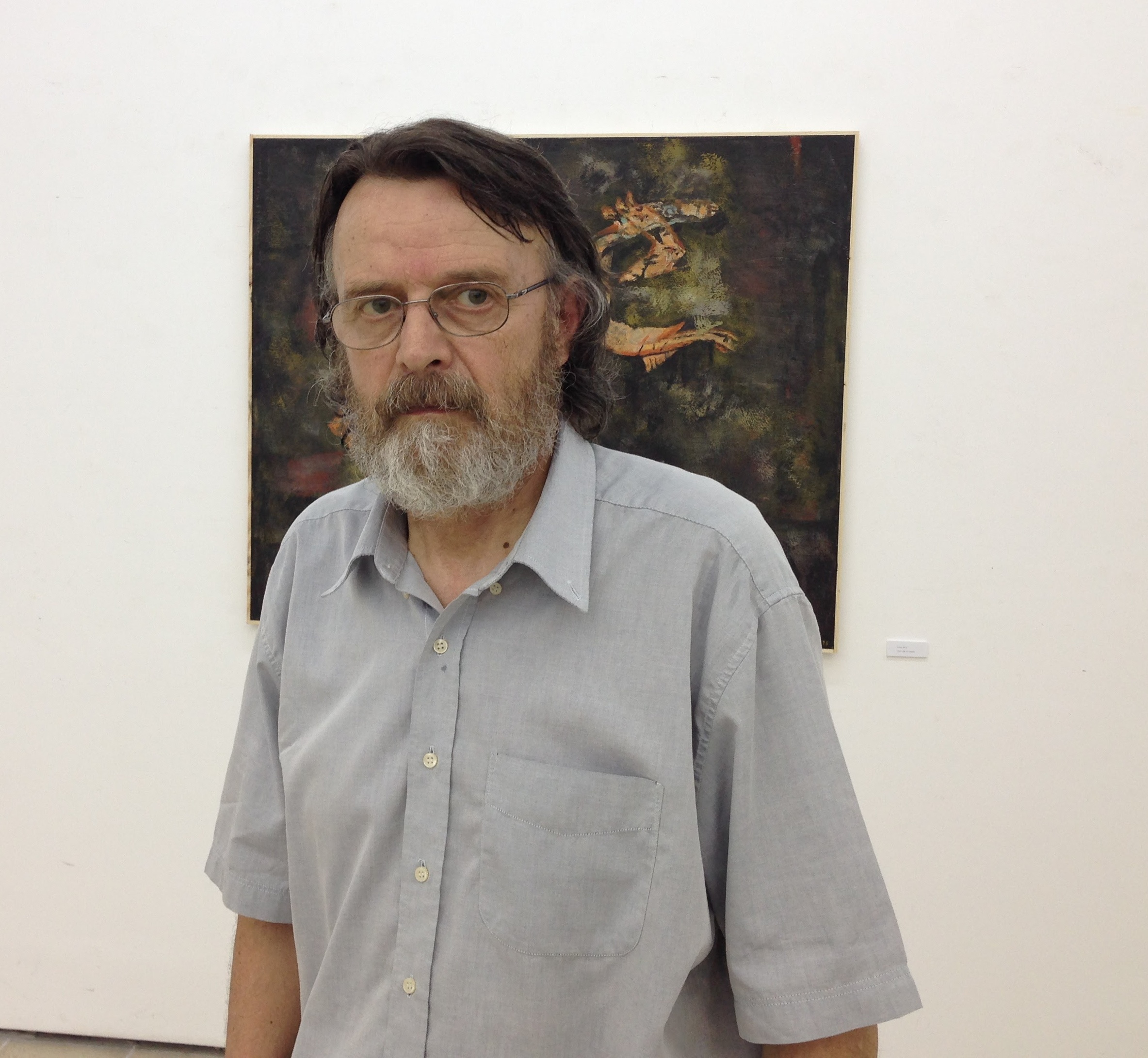 Aleksandar Dević Serbian painter. The Gallery of Contemporary Fine Arts Niš. Solo exhibition, drawing, 2017. Srpski (latinica): Aleksandar Dević, srpski slikar, na samostalnoj izložbi slika u Galeriji savremene likovne umetnosti u Nišu juna 2017.